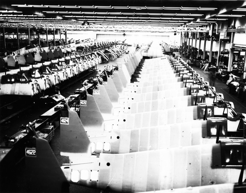 PictionID:42766309 - Title:Grumman F6F-5 production line Bethpage plant 1944 [GHC via RJF] - Catalog:17_000125 - Filename:17_000125.tif - - --------Image from the René Francillon Photo Archive. Having had his interest in aviation sparked by being at the receiving end of B-24s bombing occupied France when he was 7-yr old, René Francillon turned aviation into both his vocation and avocation. Most of his professional career was in the United States, working for major aircraft manufacturers and airport planning/design companies. All along, he kept developing a second career as an aviation historian, an activity that led him to author more than 50 books and 400 articles published in the United States, the United Kingdom, France, and elsewhere. Far from “hanging on his spurs,” he plans to remain active as an author well into his eighties.-------PLEASE TAG this image with any information you know about it, so that we can permanently store this data with the original image file in our Digital Asset Management System.--------------SOURCE INSTITUTION: San Diego Air and Space Museum Archive